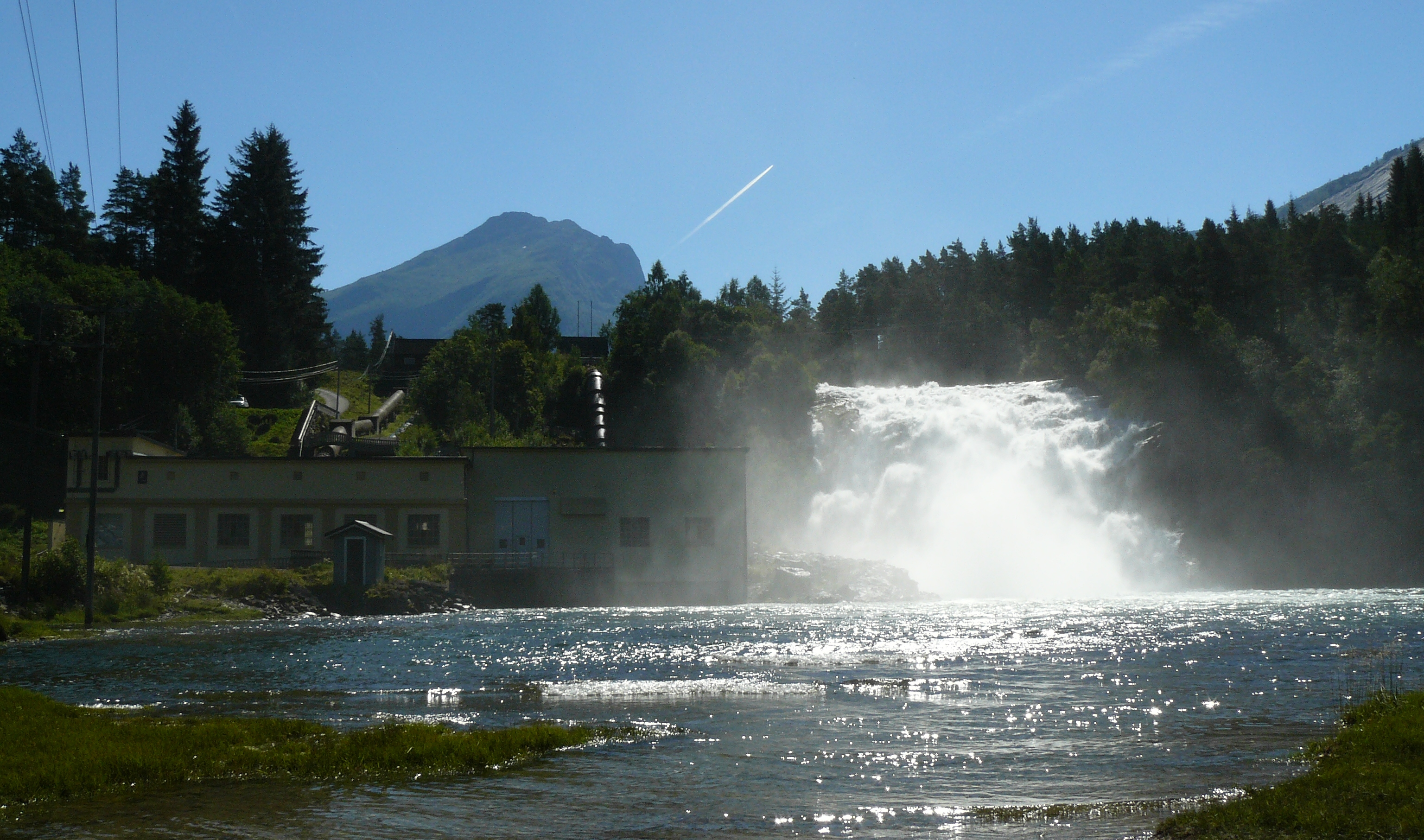 Eidsfossen, a cascading waterfall in Gloppen kommune